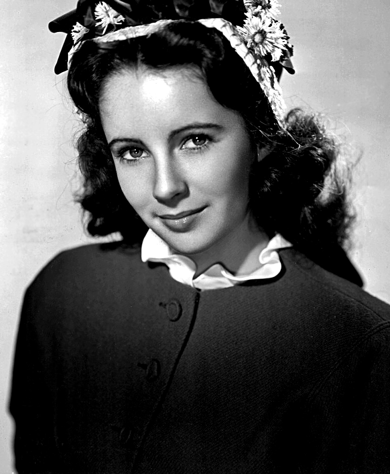 Original studio publicity portrait of Elizabeth Taylor for film Hold High the Torch